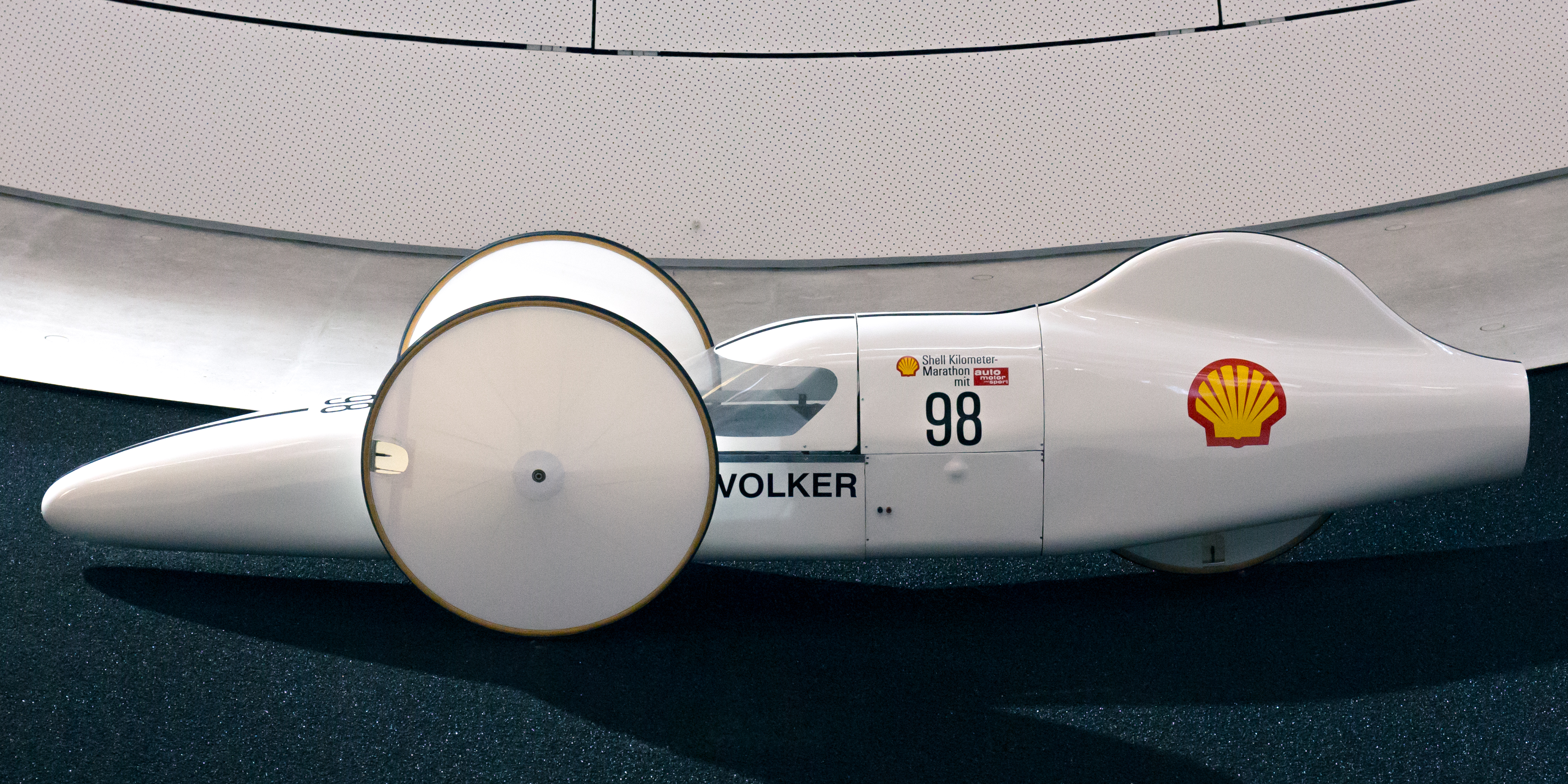 1980 Mercedes-Benz economobile